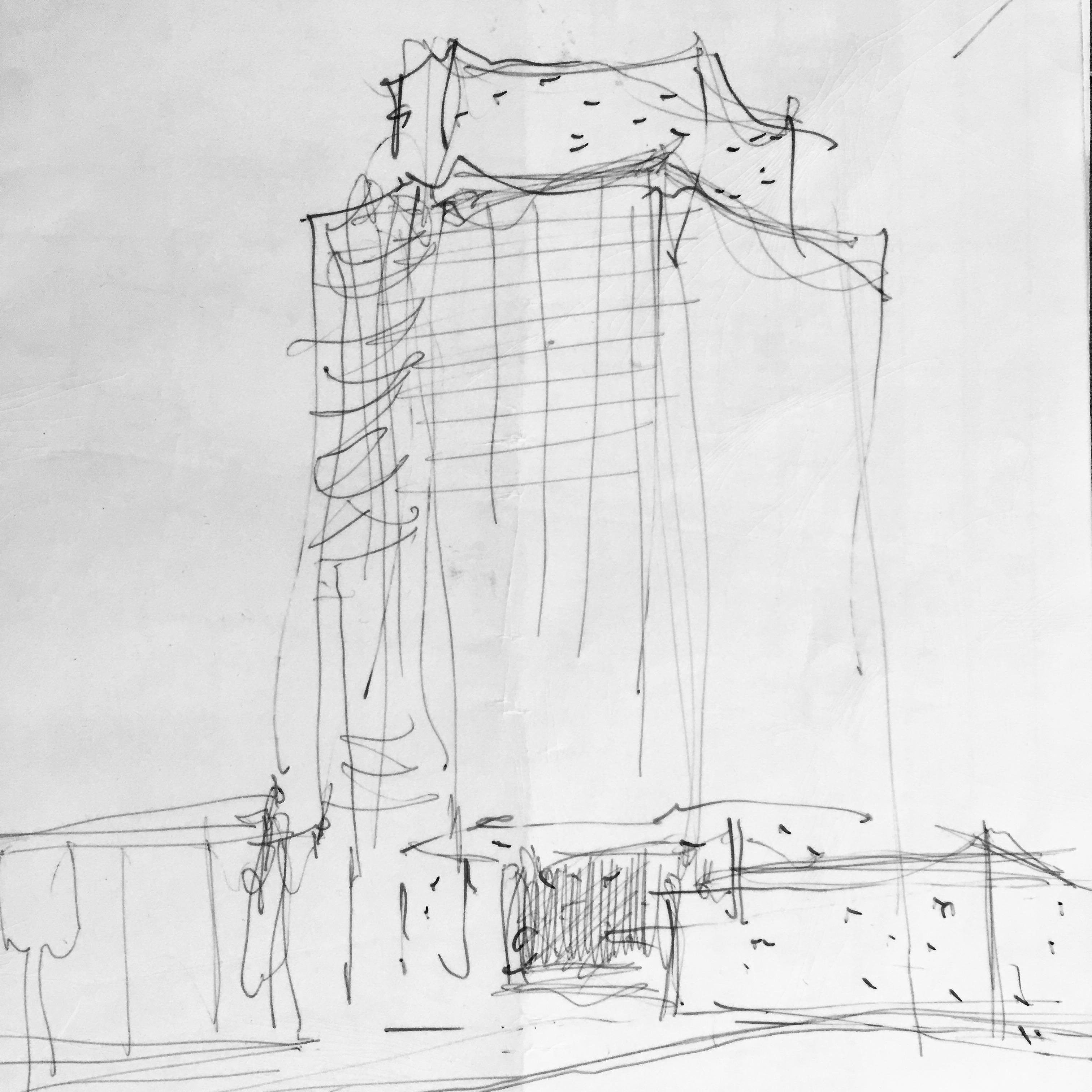 Early sketch of office Building by Charles Edward Pratt